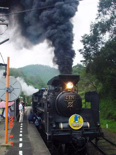 The steam locomotive SL Yamaguchi-go is one of a very few working engines of this type in Japan. It runs a once-a-day return trip on weekends and national holidays (except in the winter) between Shin Shimonoseki (formerly Ogori) station and Tsuwano-cho, mainly for tourists. The trip takes about 90 minutes. This is a modification of Image:SL Yamaguchi go.jpg. gK ¿? 07:30, 5 Jan 2005 (UTC) Photograph © Ian Ruxton (Historian), en:11 September, en:2004.